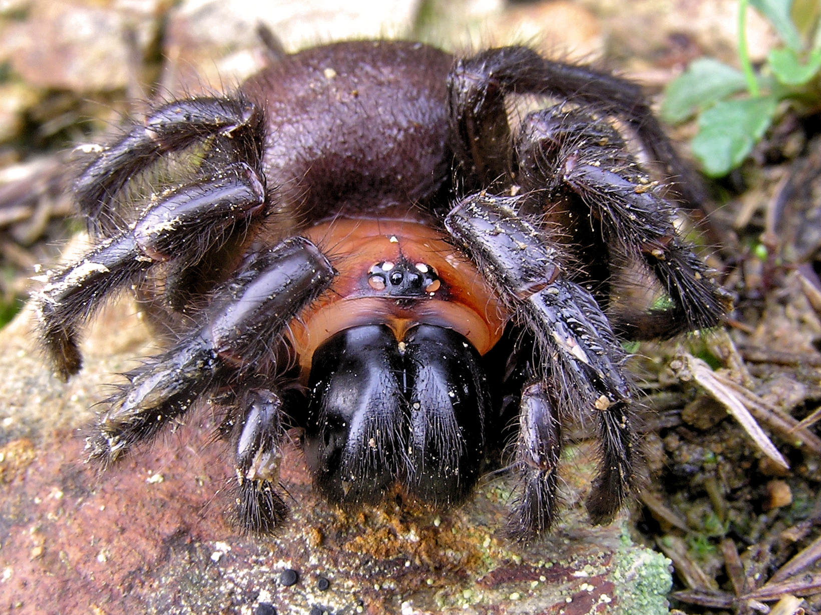 Black Tunnelweb spider emphasising head detail - 8 eyes and palps, Wellington, New Zealand. (recently killed, hence bunched up legs and smattering of mud).